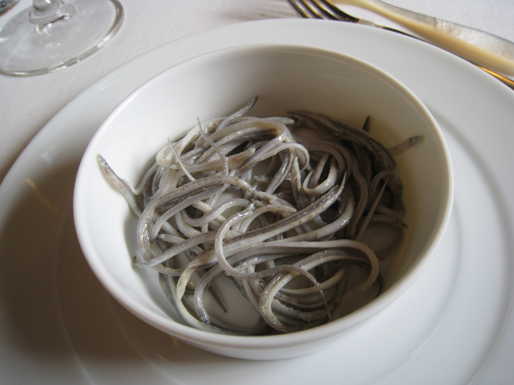 bowl of baby eels.